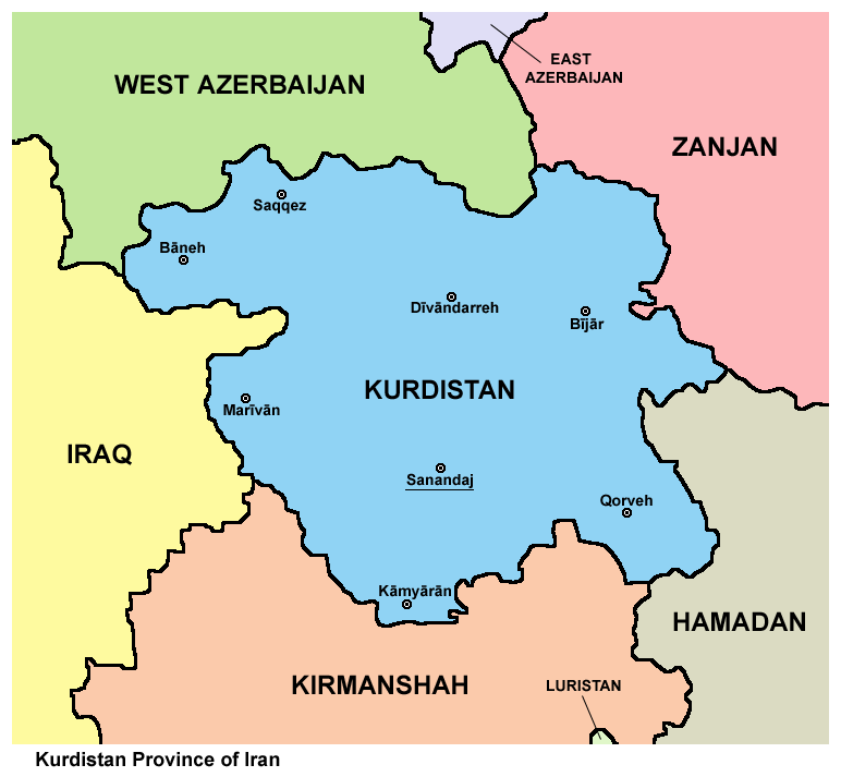 Map showing the Kurdistan Province of Iran.